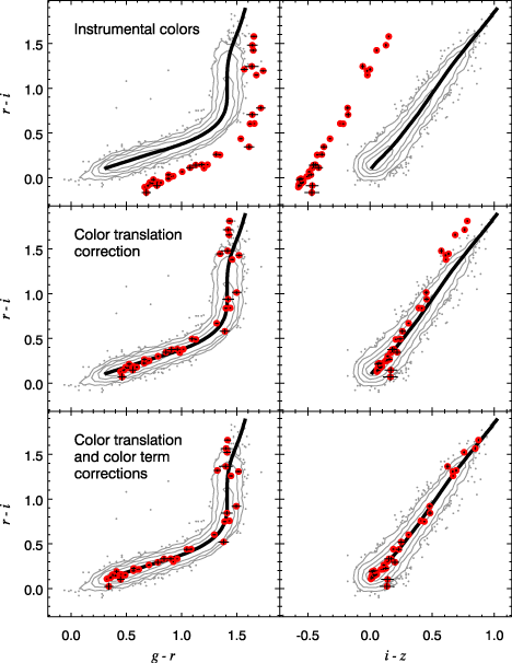 An illustration of the Stellar Locus Regression (SLR) method of High et al. (2010).